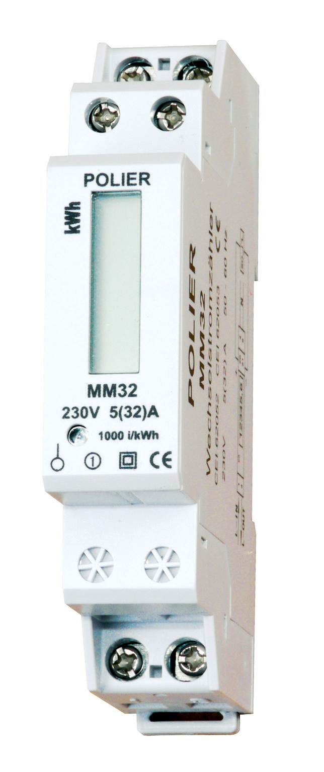 compteur électrique monophasé modulaire